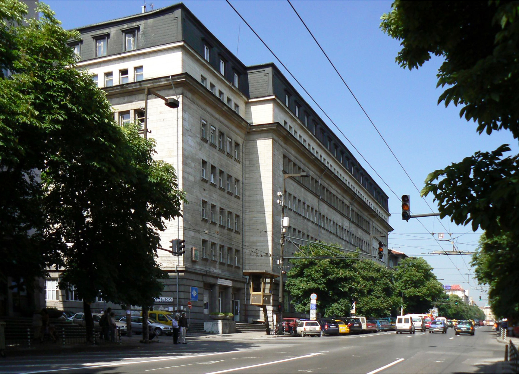 1st City hospital, located on "Patriarch Evtimii" Blvd. Sofia, Bulgaria